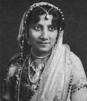 Atiya Fyzee, from a 1921 publication. An Indian woman wearing a head-covering light-colored veil with a pearl(?) ornament, and an embroidered/jeweled bodice.